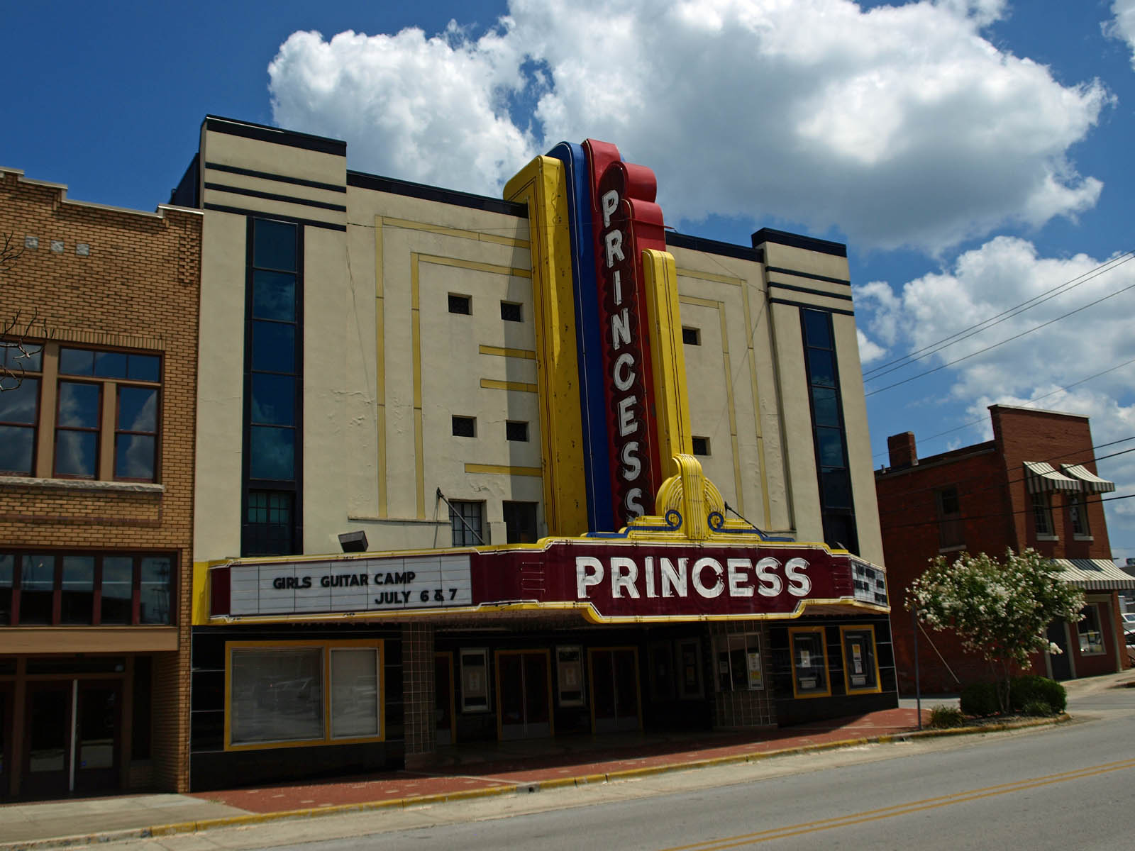 The Princess Theatre in Decatur, Alabama, listed on the Alabama Register of Landmarks and Heritage.